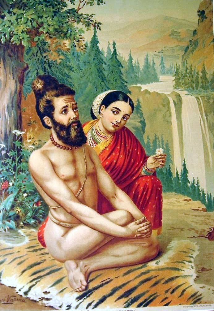 Menaka and Vishvamitra, in a painting by Raja Ravi Varma